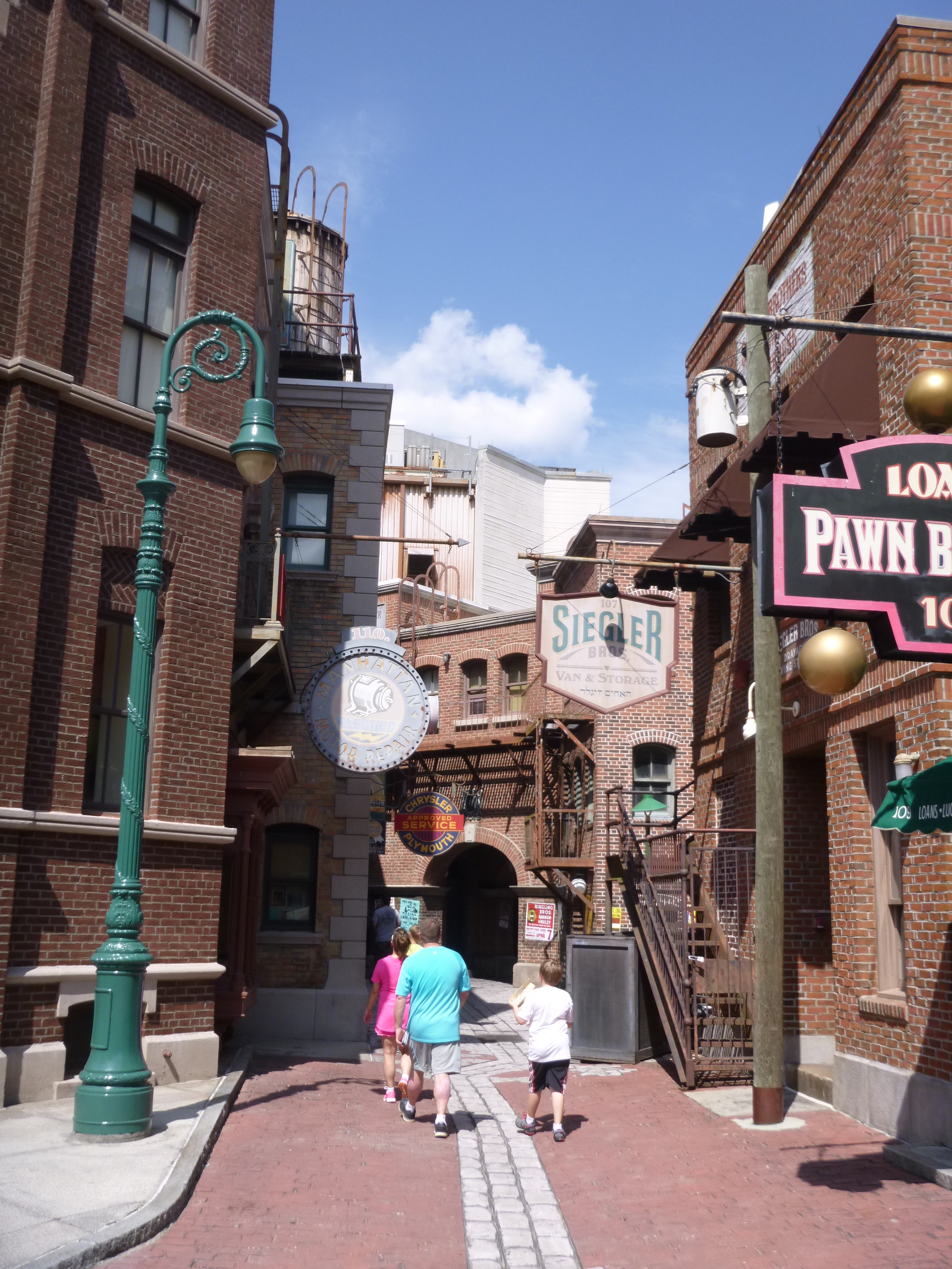 Sting Alley in front of 5th Avenue at New York themed area